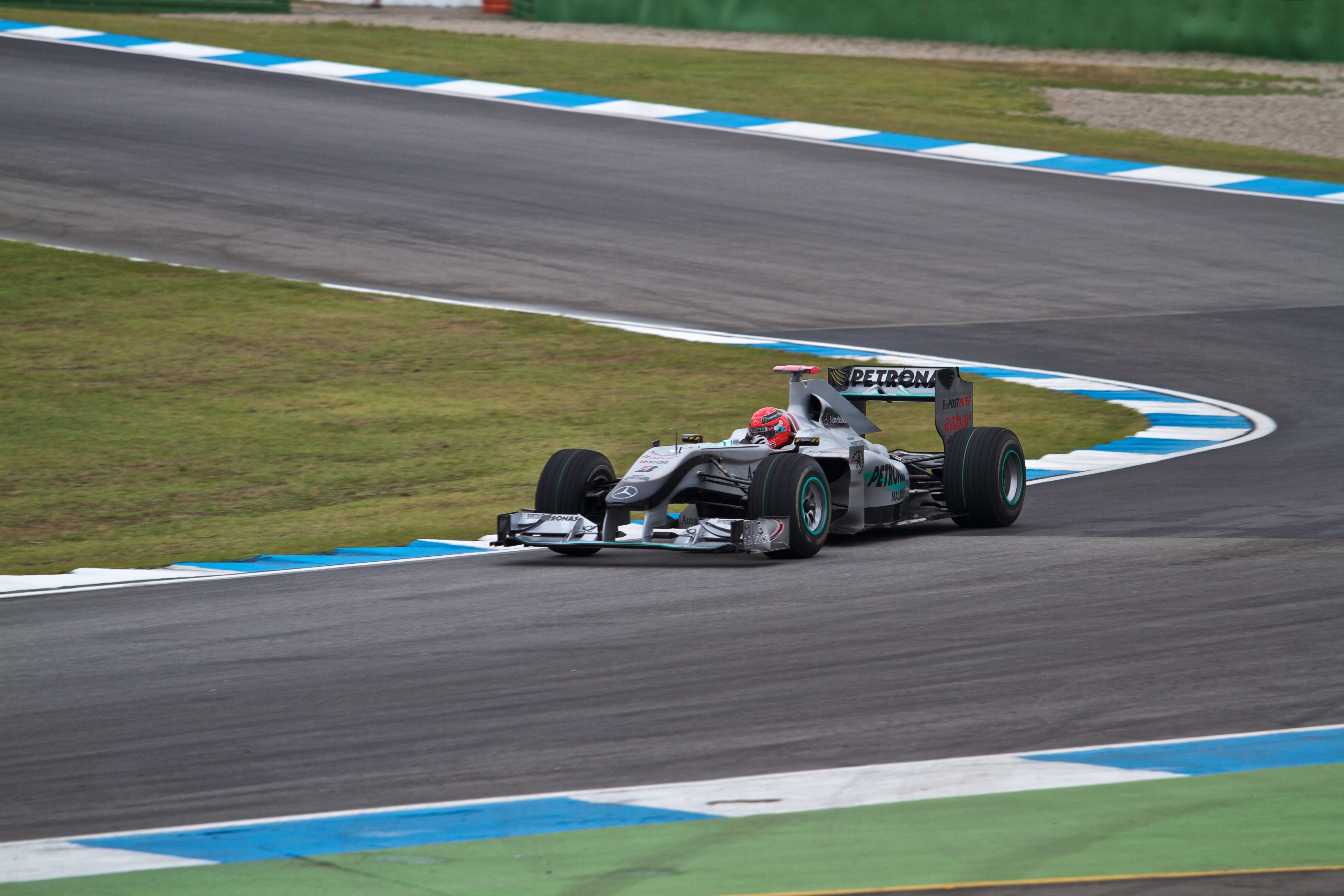 Michael Schumacher at the 2010 German Grand Prix